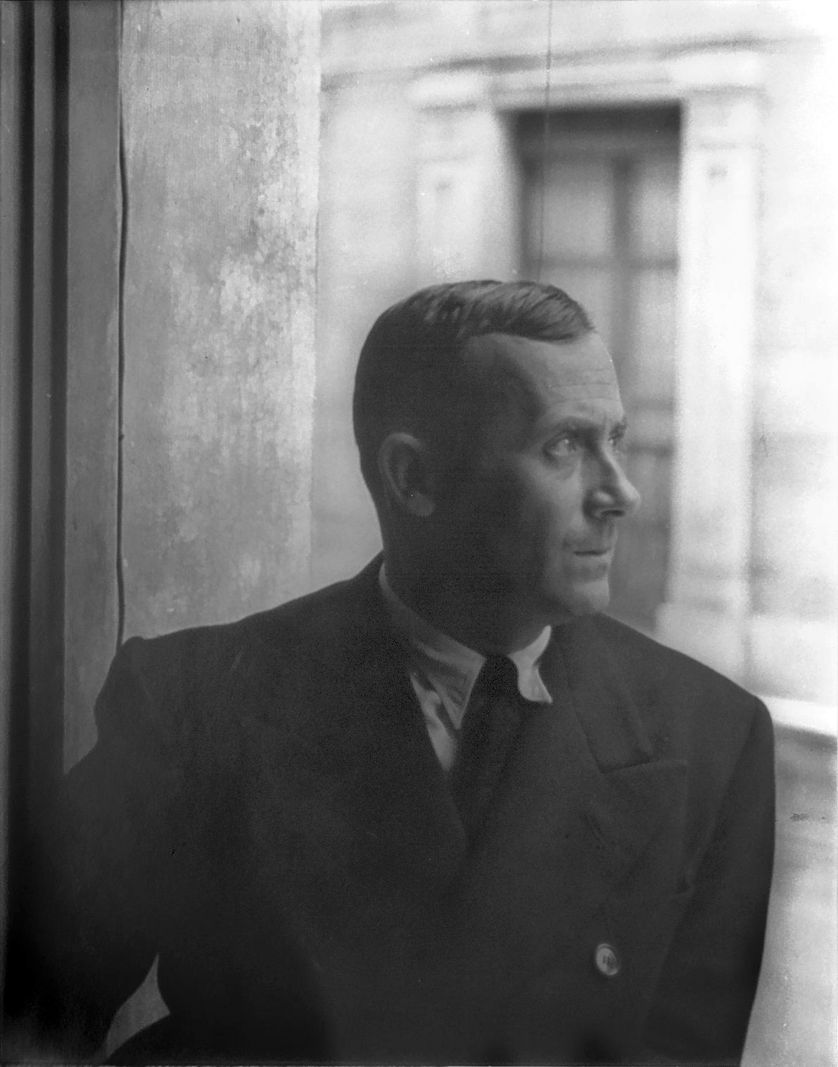 Portrait of Joan Miro, Barcelona.